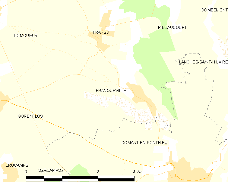 Map of French municipality Franqueville